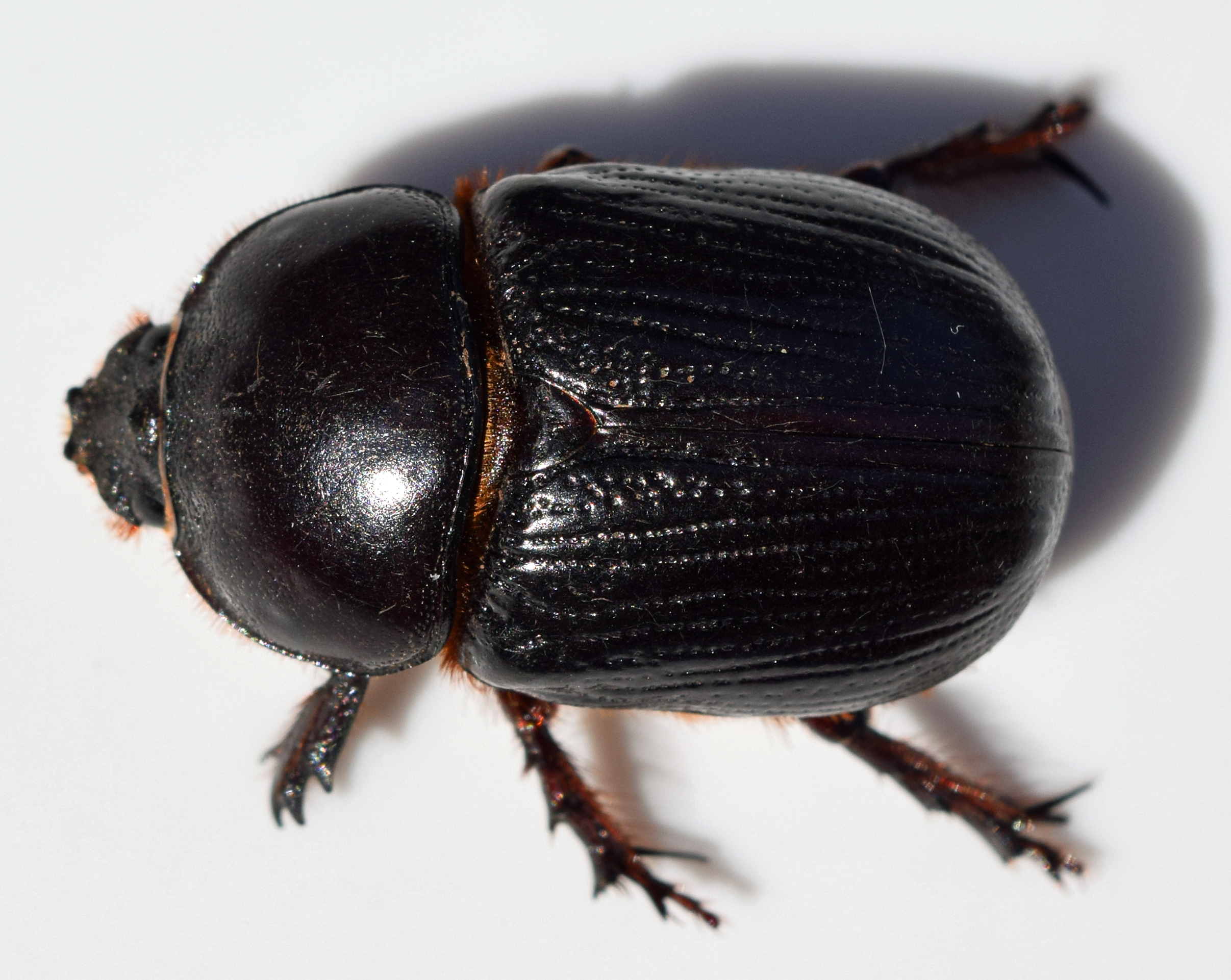 An adult female Xyloryctes jamaicensis (American rhinoceros beetle) at the University of Mississippi Field Station.